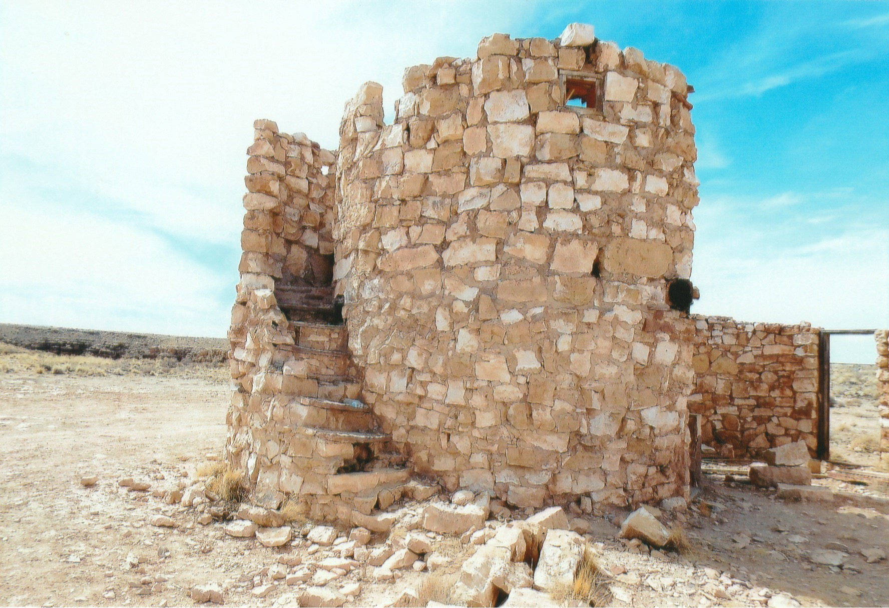 Ruins in Two Guns, Arizona (The round house/tower)